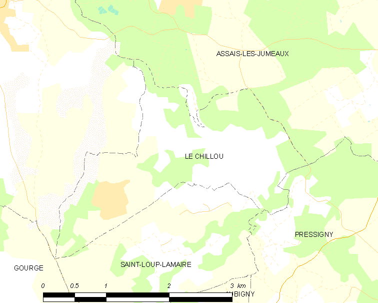 Map of French municipality Le Chillou